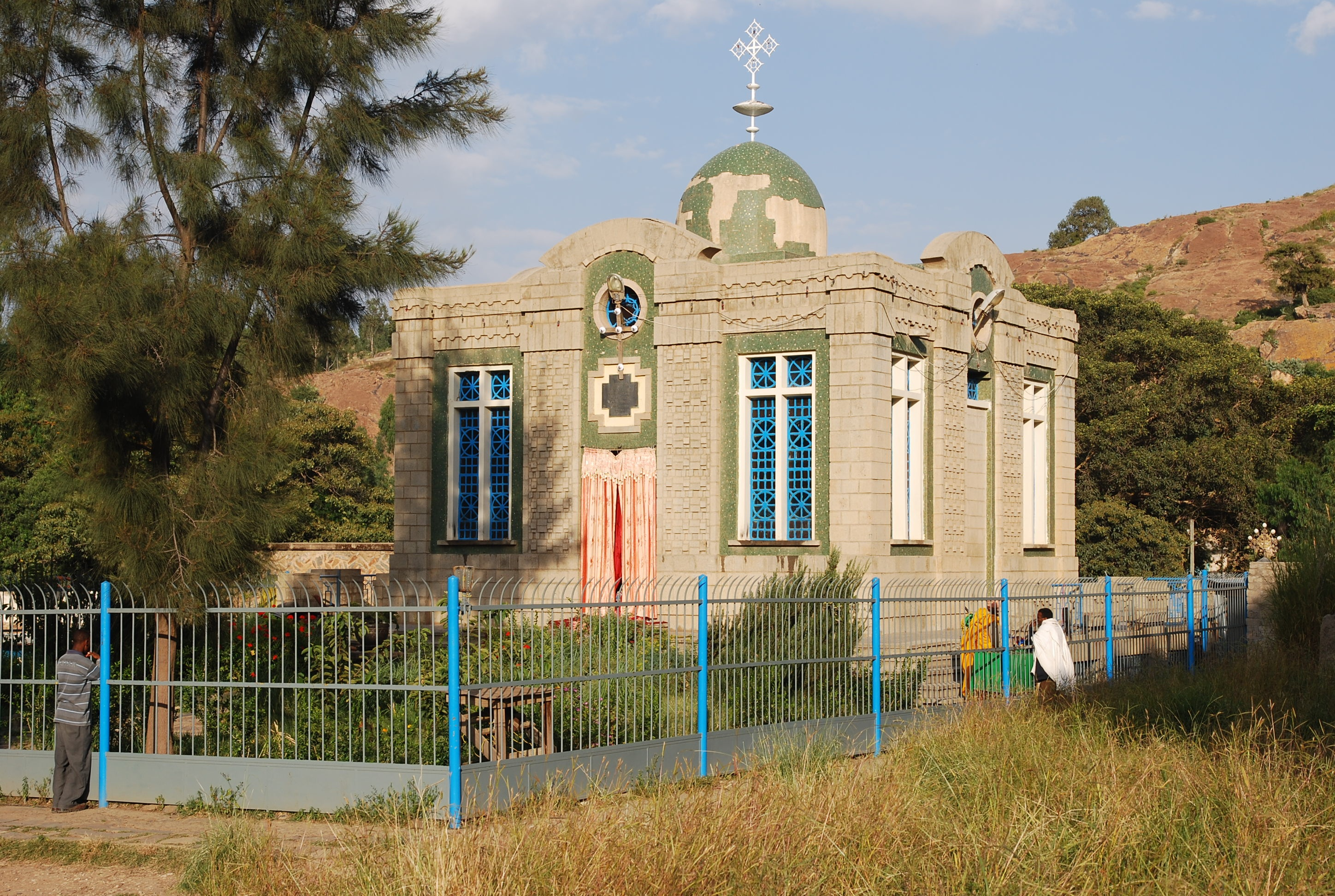 Building supposedly containing the Ark of the Covenant at Maryam Sion church in Aksum Ethiopia